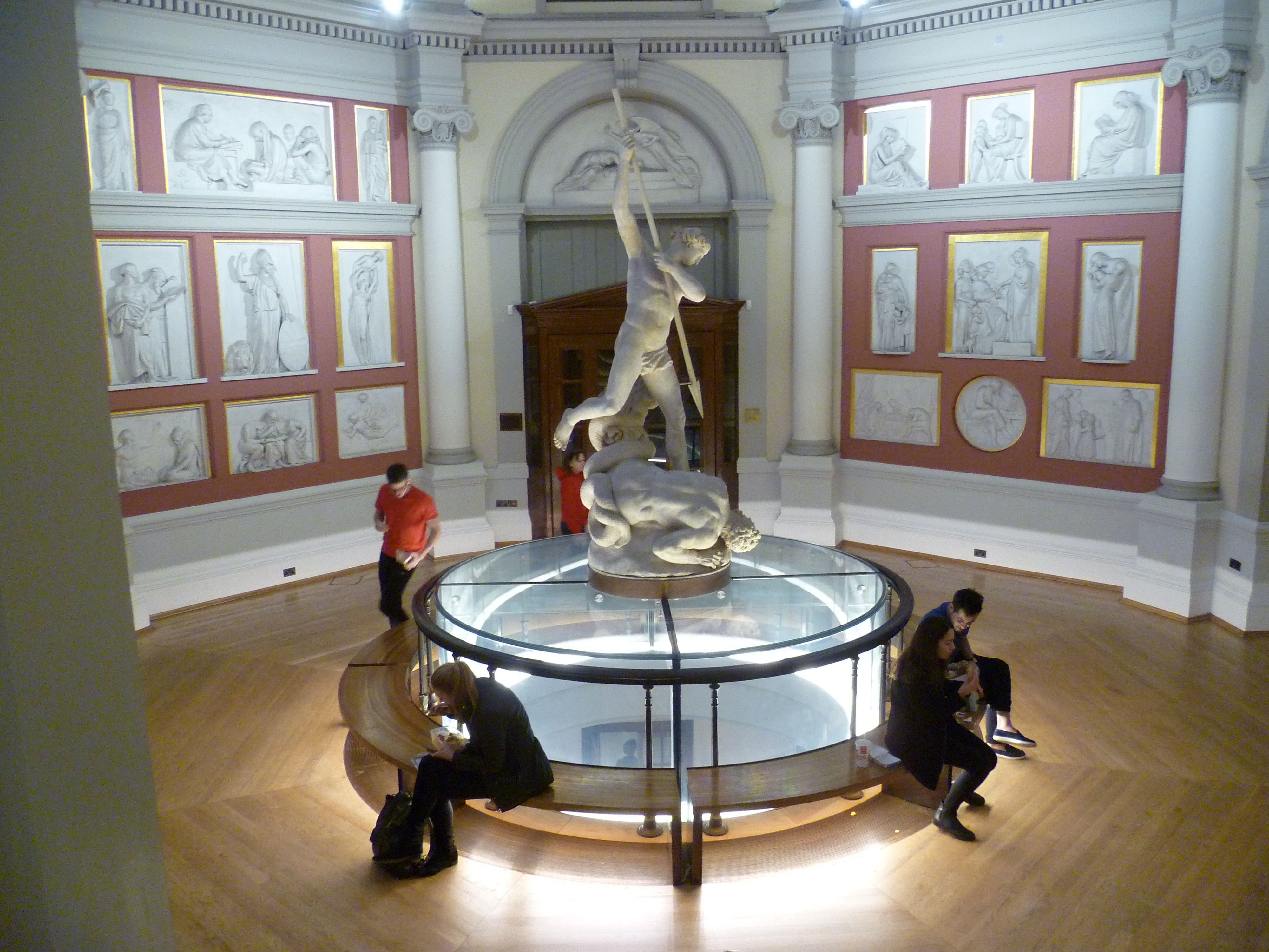 University College London main library. The sculpture is John Flaxman’s St Michael Overcoming Satan.